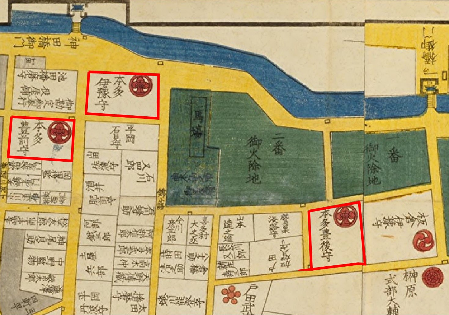 Residence Honda abc clan at Edo